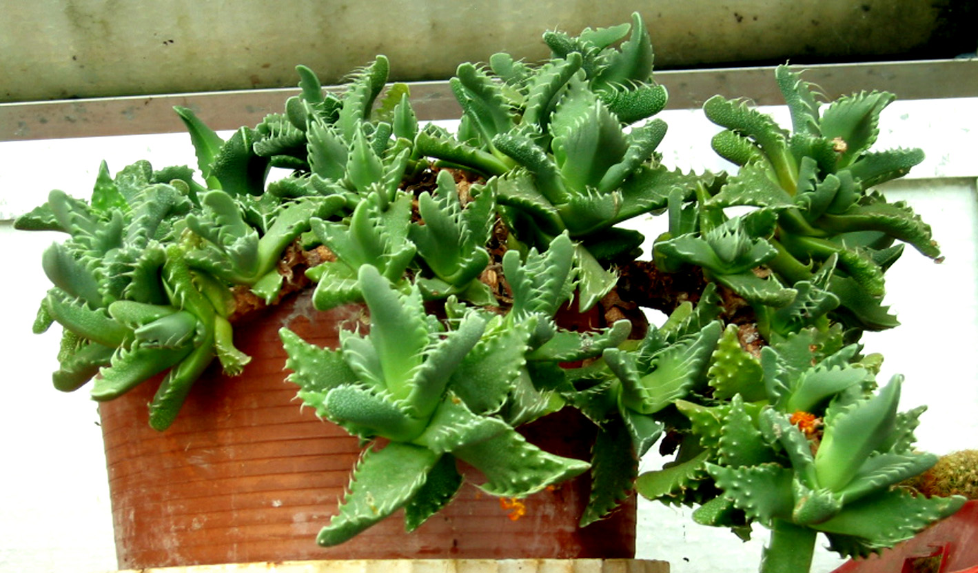 Faucaria tigrina. Photo taken by myself.